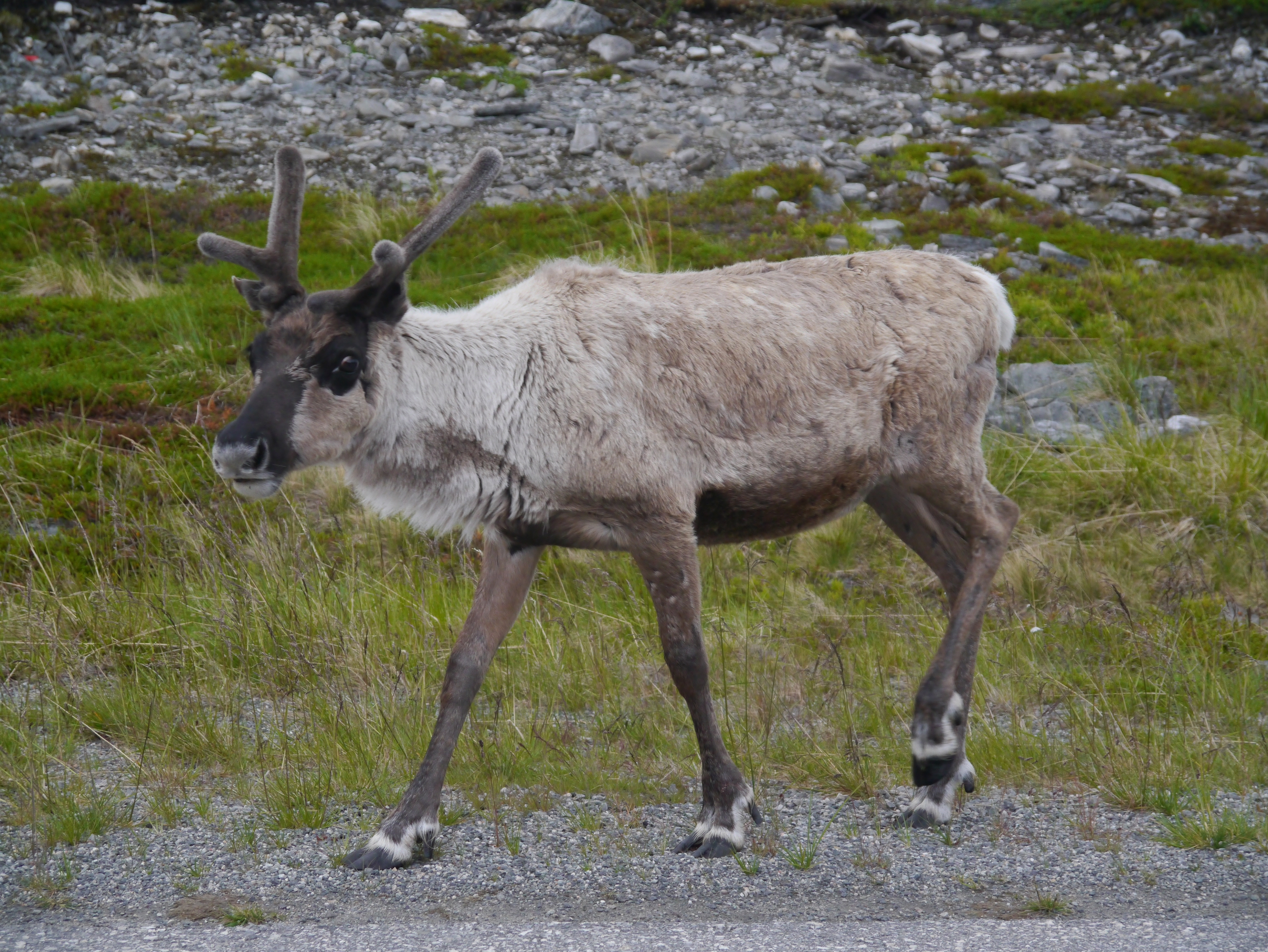 Reindeer on Mageröya, Finnmark Province, Northern Norway